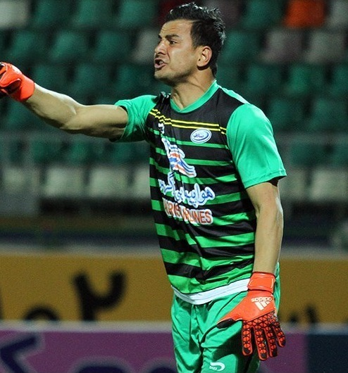 Hamed Lak